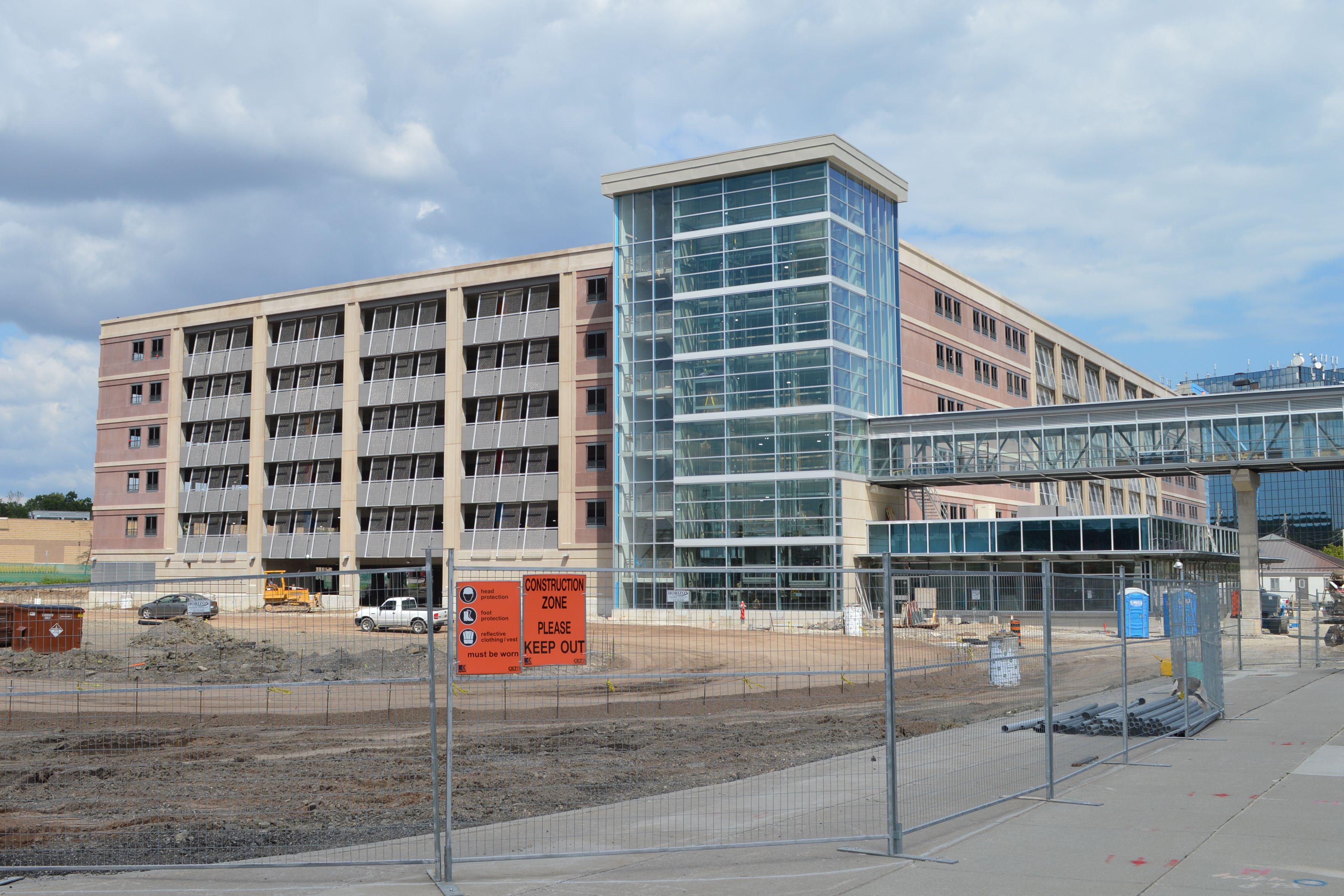 Erindale GO Station multi-storey parking structure under construction